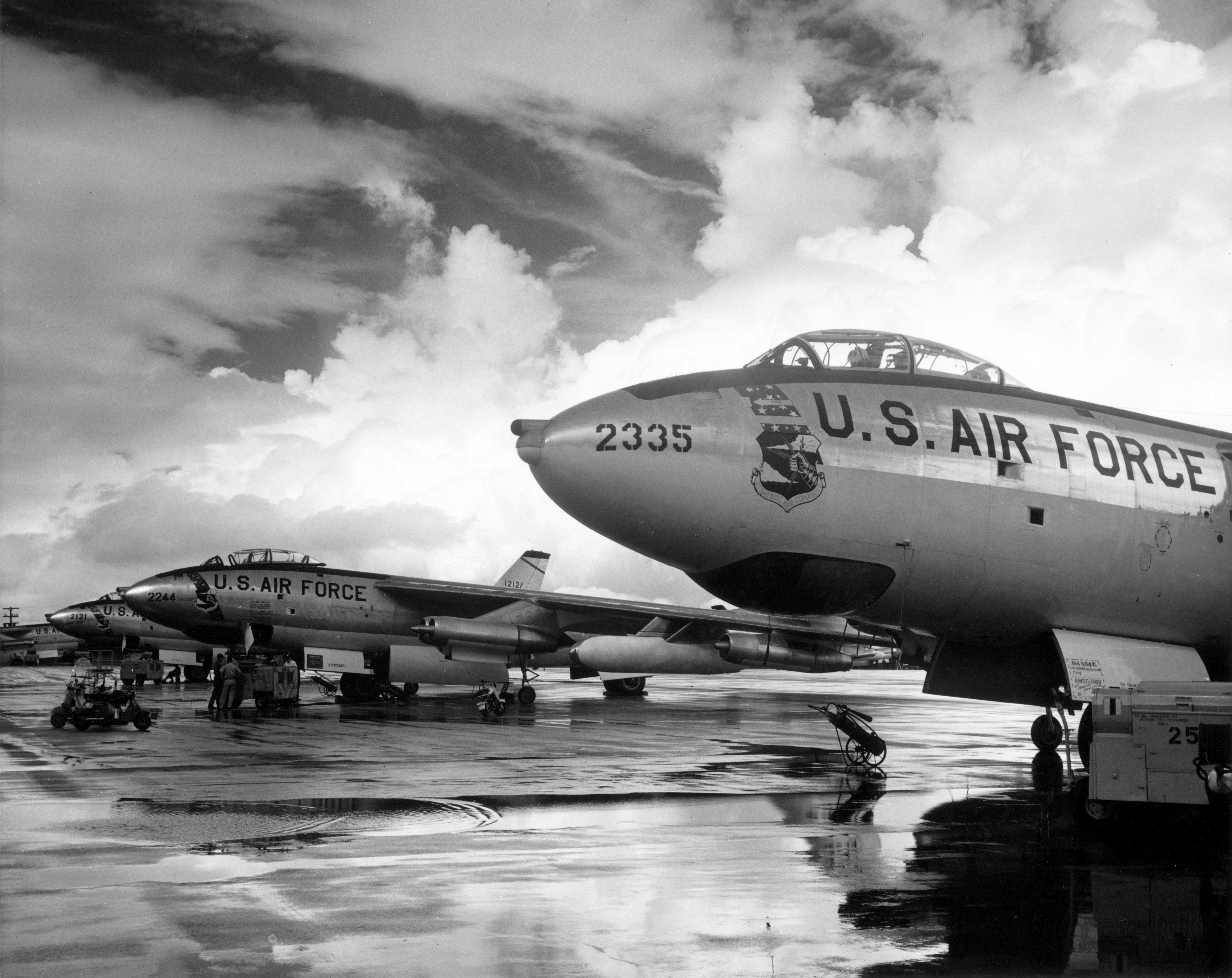 Strategic Air Command B-47 Stratojet bombers c. 1950s. The world's first swept-wing bomber. The B-47 normally carried a crew of three--pilot, copilot (who operated the tail turret by remote control), and an observer who also served as navigator, bombardier and radar operator.